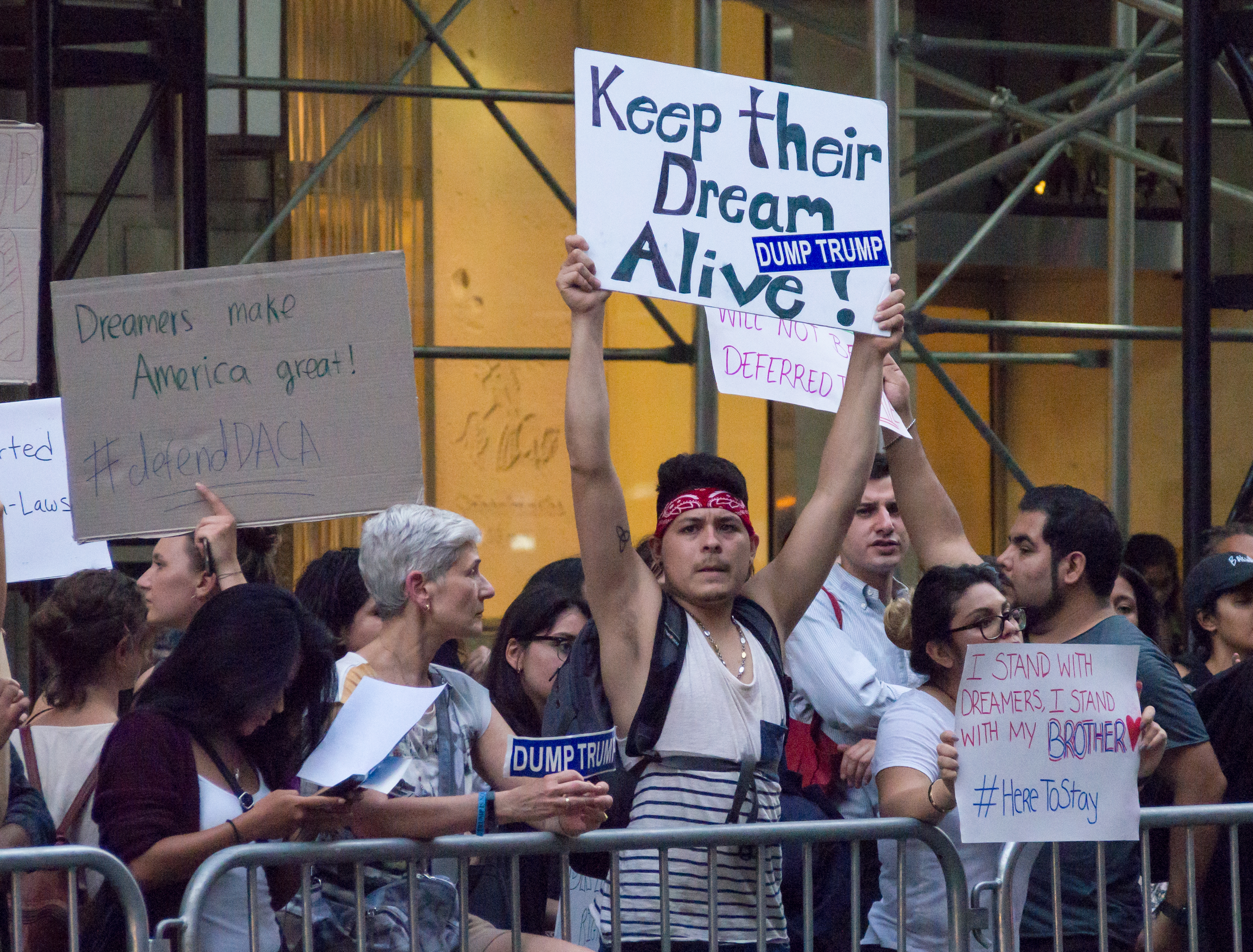 Protest in support of DACA (against its rescission) at Trump Tower in New York City.